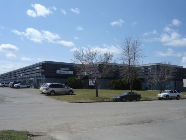 Saskatoon Airport Business Area. Bayside Corals and other businesses strip mall